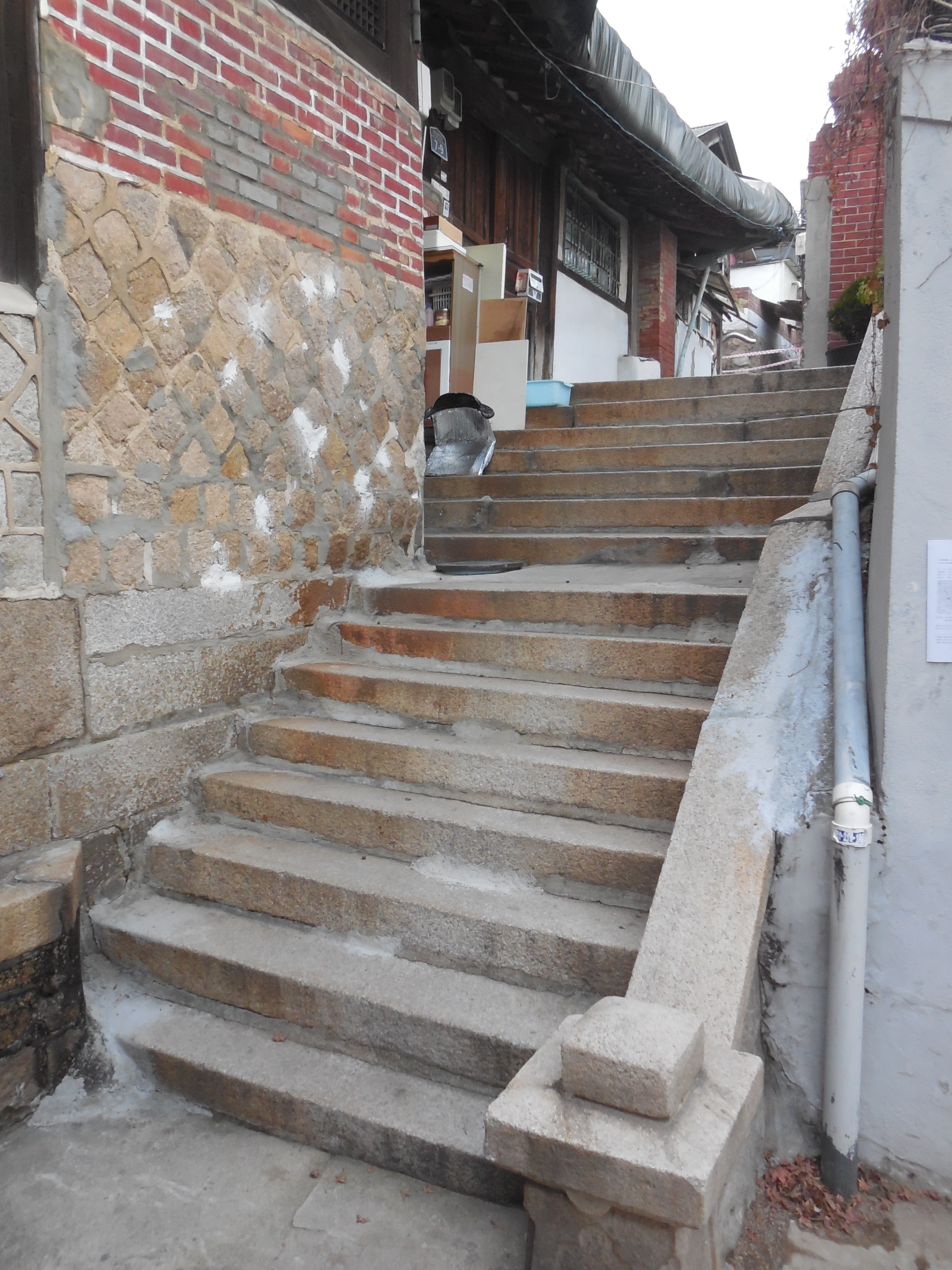 Stone stairs and entrance to Seo Yongtaek's House in Ogin-dong.